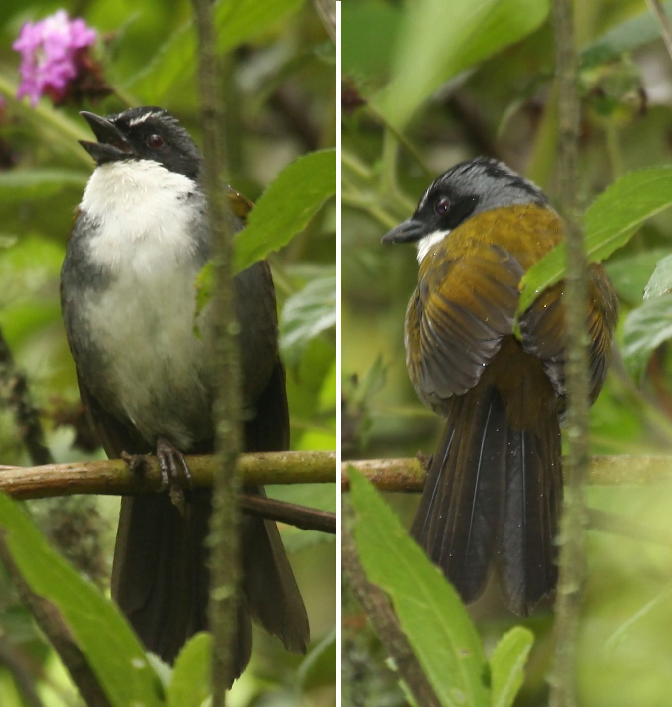 Two images of a single Gray-browed Brush Finch, Arremon assimilis. Location: along old Mindo Rd., Ecuador